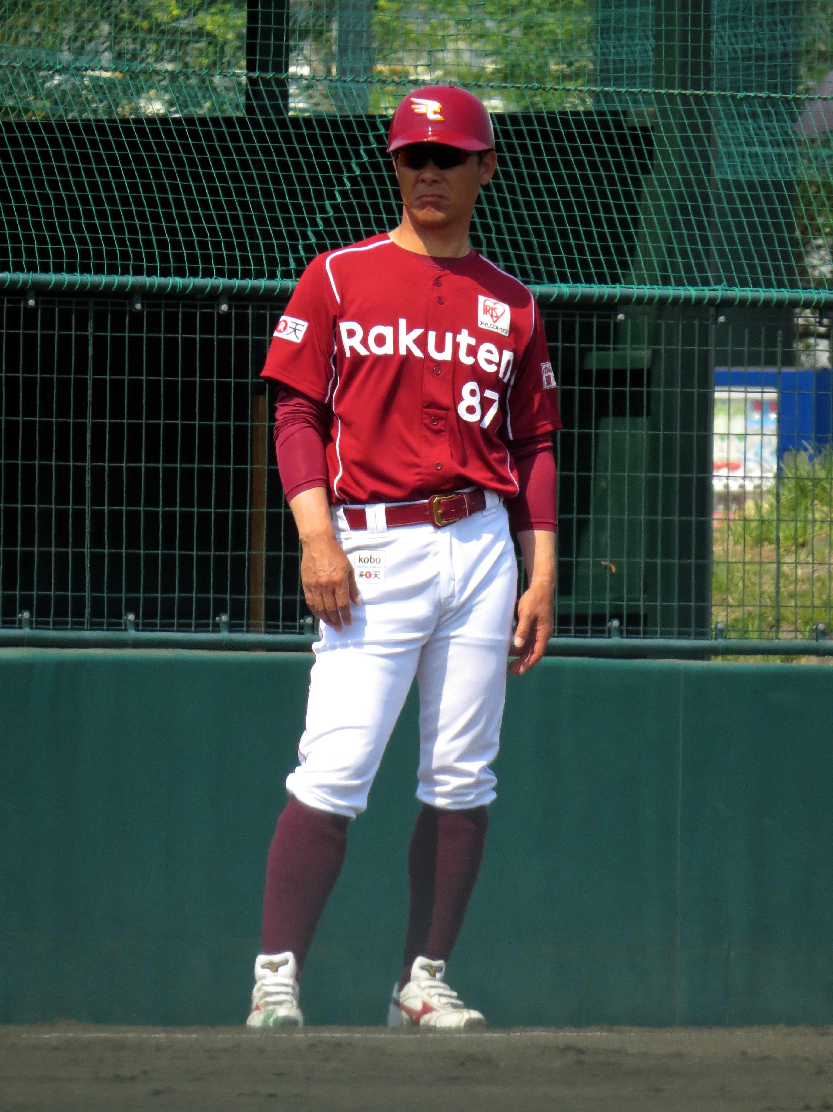 Daisuke Masuda, coach of the Tohoku Rakuten Golden Eagles, at Lotte Urawa Baseball Ground.